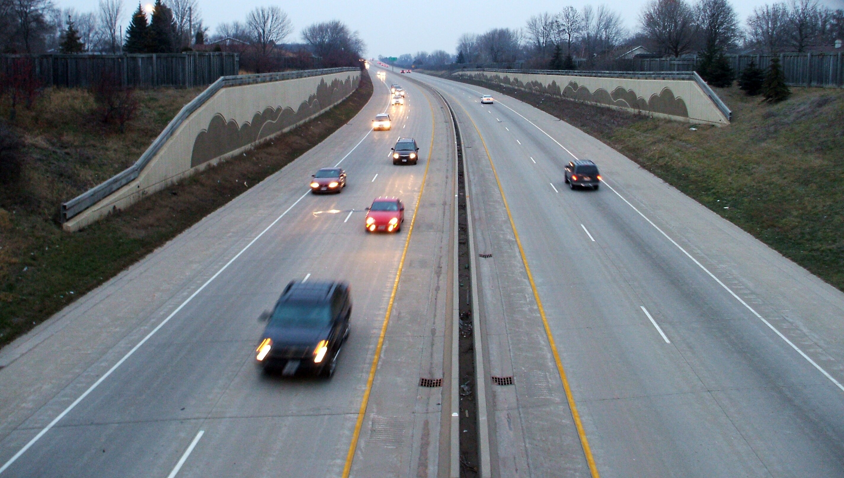 Wisconsin State Highway 441 (a spur loop of U.S. Route 41) looking north from the Newberry Street viaduct, Appleton, Wisconsin. Taken by myself on November 25, 2006. Category:Images of Wisconsin highways